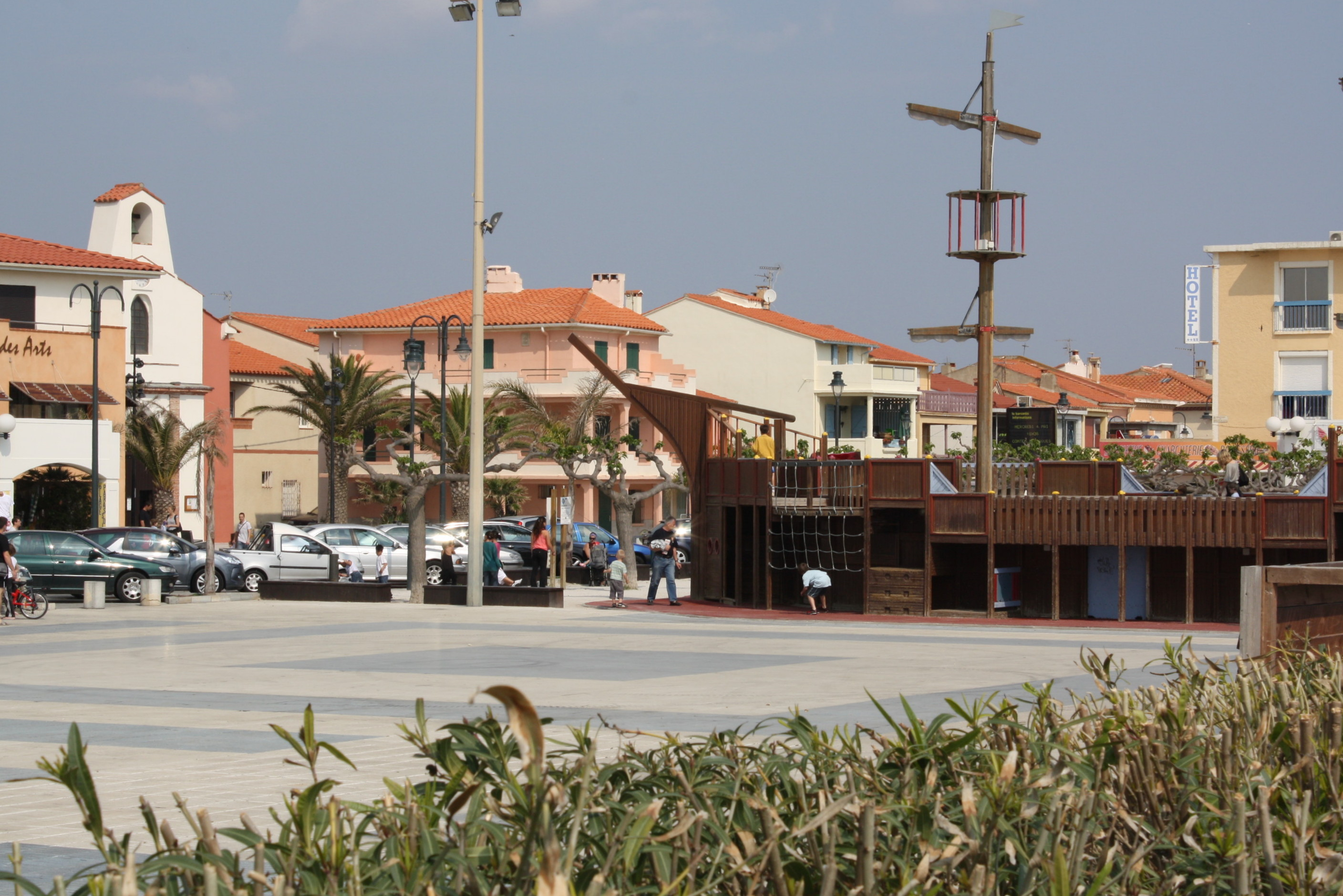 Le bateau-scène de spectacle-espace de jeux